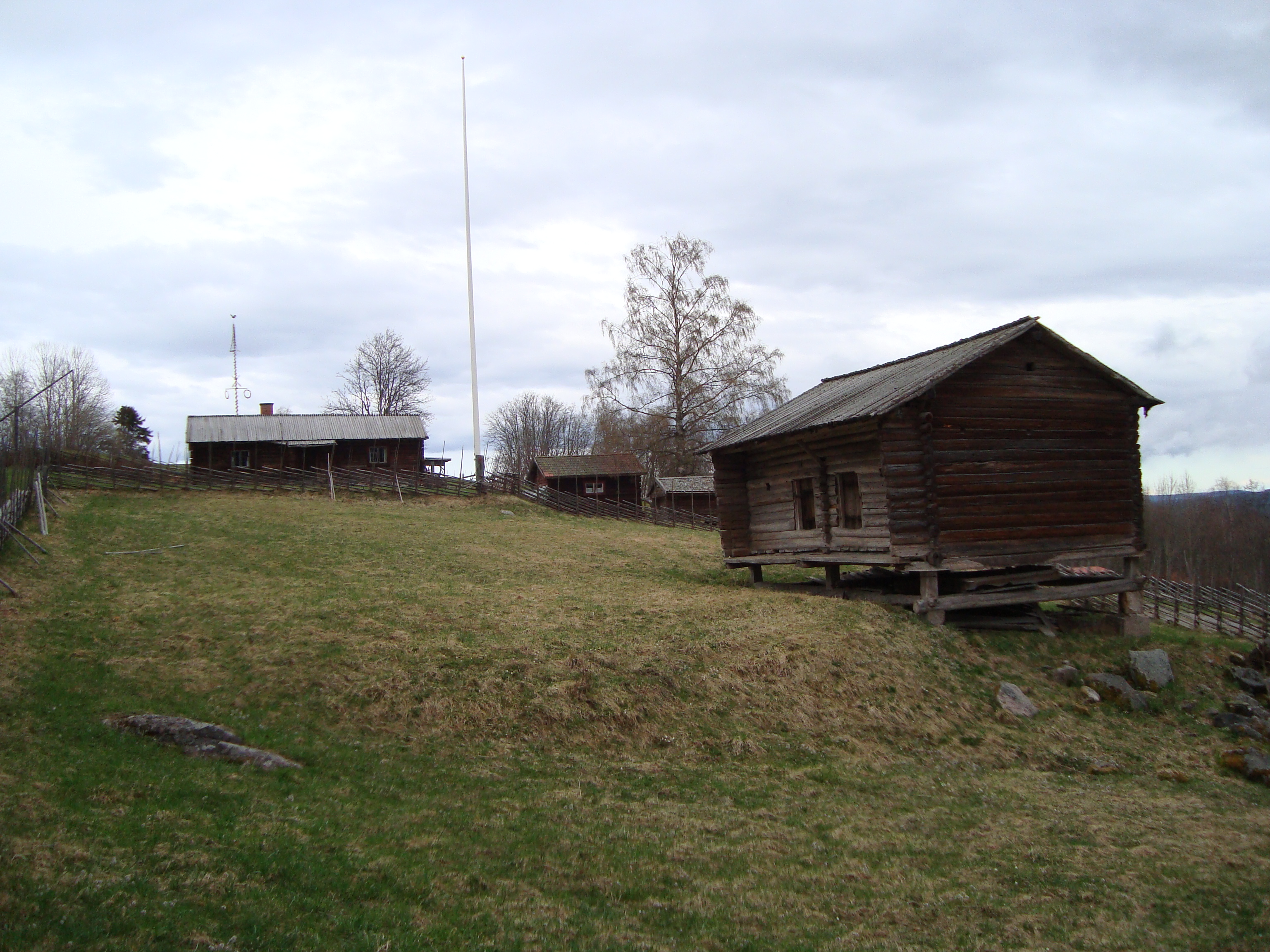 Mountain pasture on mount 'Dössberget', Bjursås, Falun Municipality, Sweden